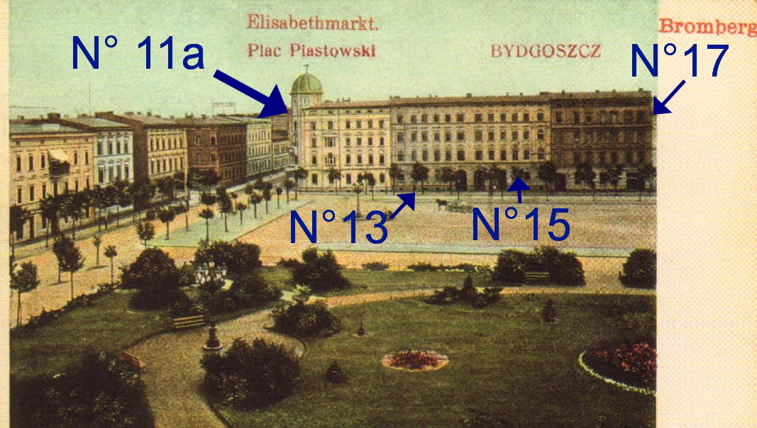 N°11a to 17 in 1912